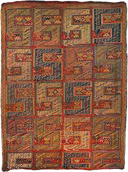 Armenian Pileless Dragon carpet Teltogh (leftover thread weaving),19th century, village of Ktsaberd, province of Dizak, Artsakh, wool, cotton, red warp, 220 x 327 cm, HMA E-11178